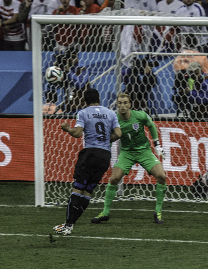 Uruguay and England match at the FIFA World Cup 2014-06-19, Arena Corinthians, São Paulo, Brazil.